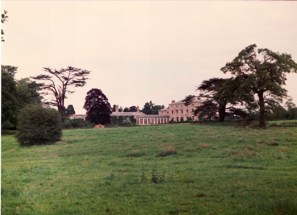 Terling Place, home of the Rayleigh family, Terling, Essex